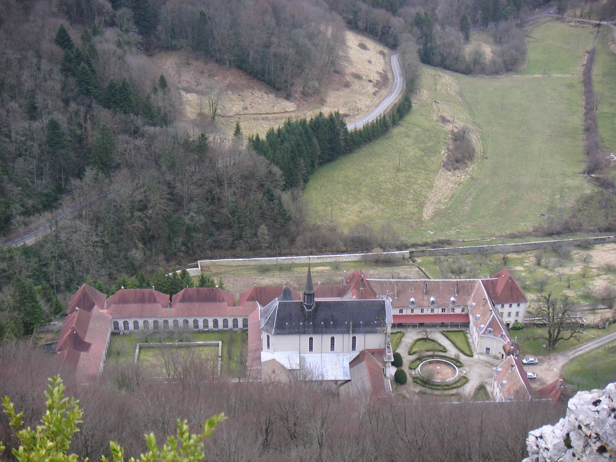 The chartreuse of Sélignac, France